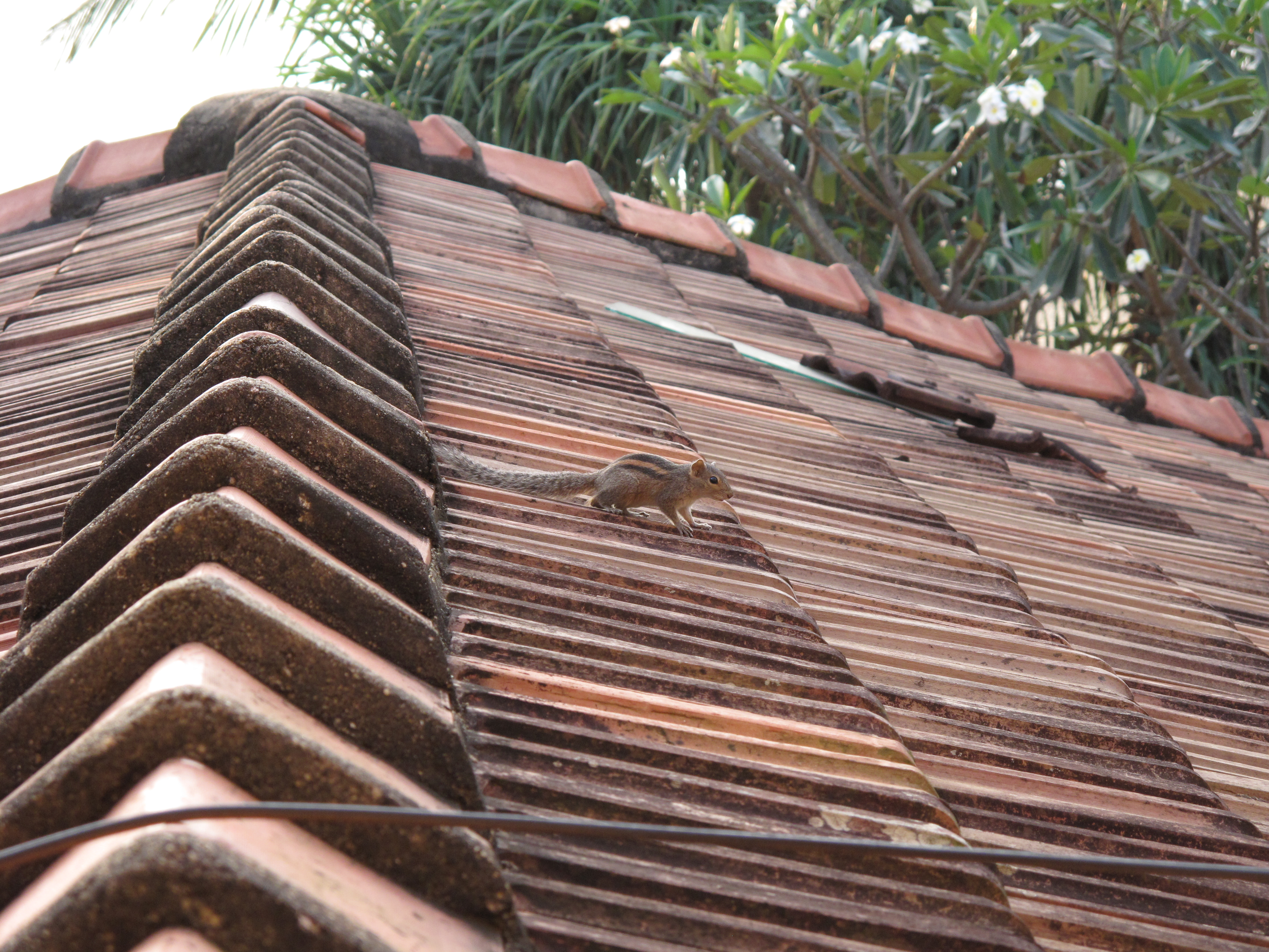 Ridge tile with squirrel in Negombo, Sri Lanka.